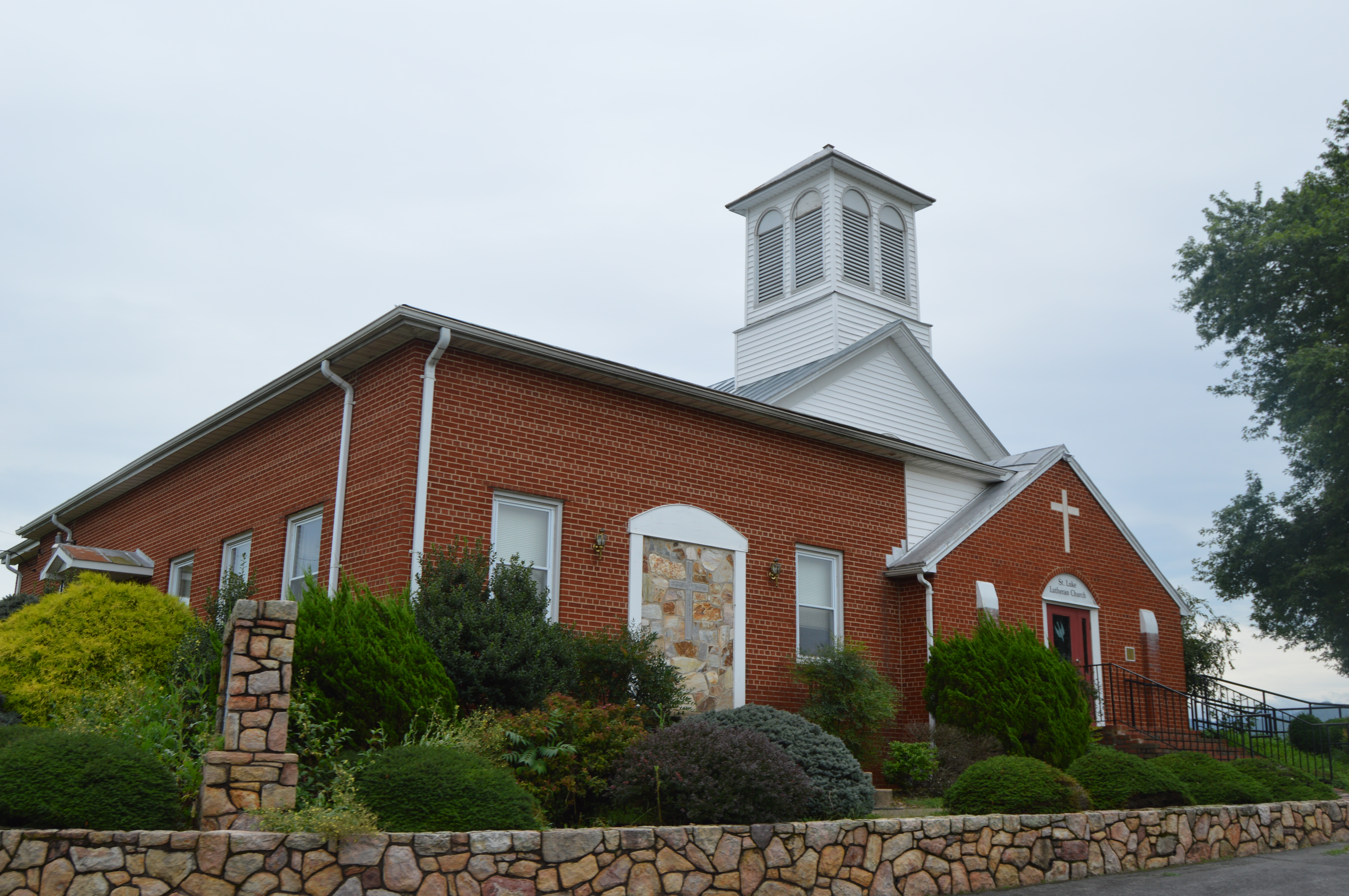 Front and eastern side of St. Luke Lutheran Church, located at 6457 Leaksville Road at Alma in Page County, Virginia, United States.